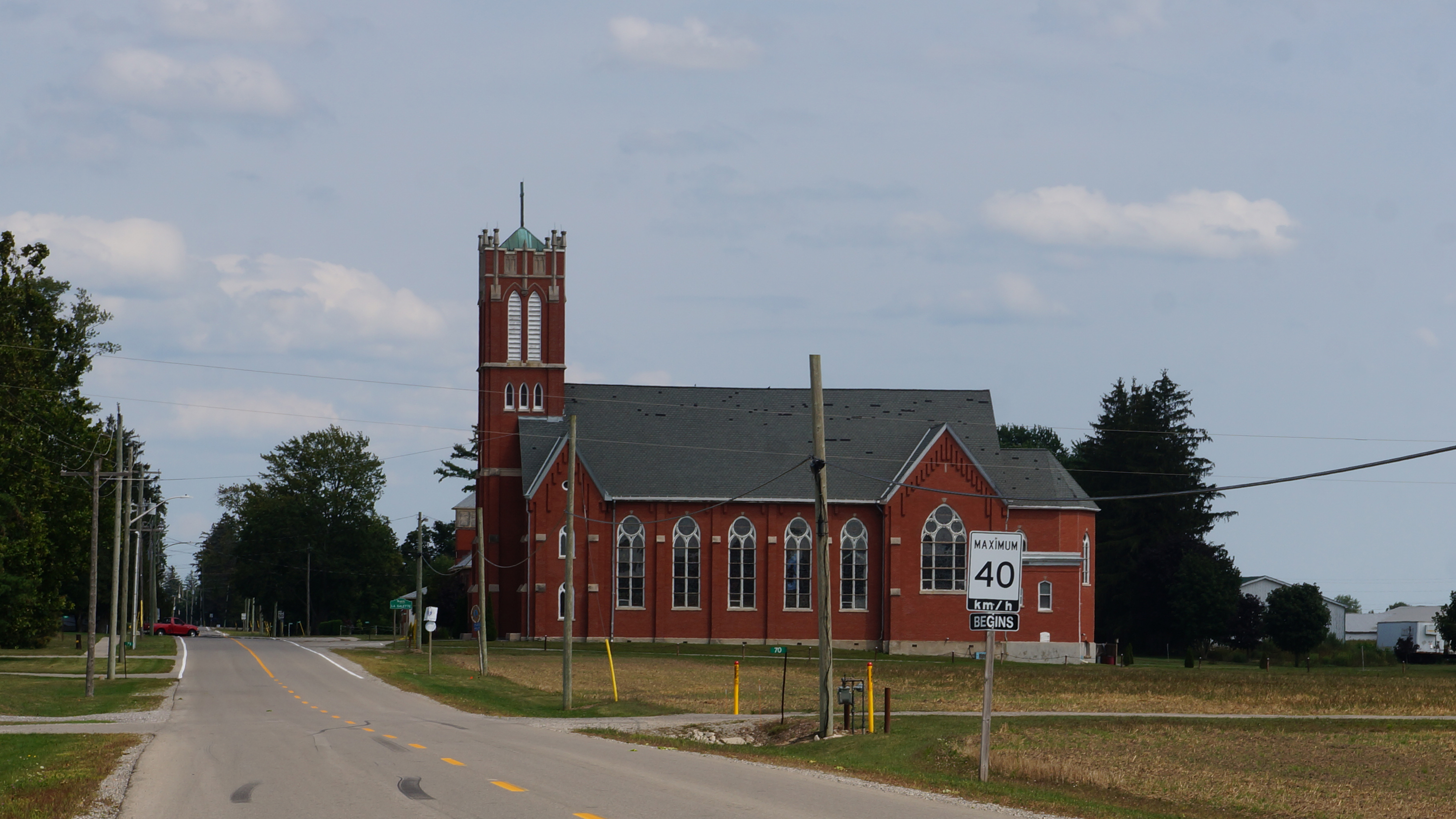 The La Salette Historic Church and Hall in La Salette, Ontario. Formerly Our Lady of Lady of La Salette Roman Catholic Church.